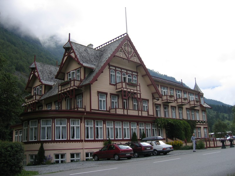 Hotel Union Øye Norway